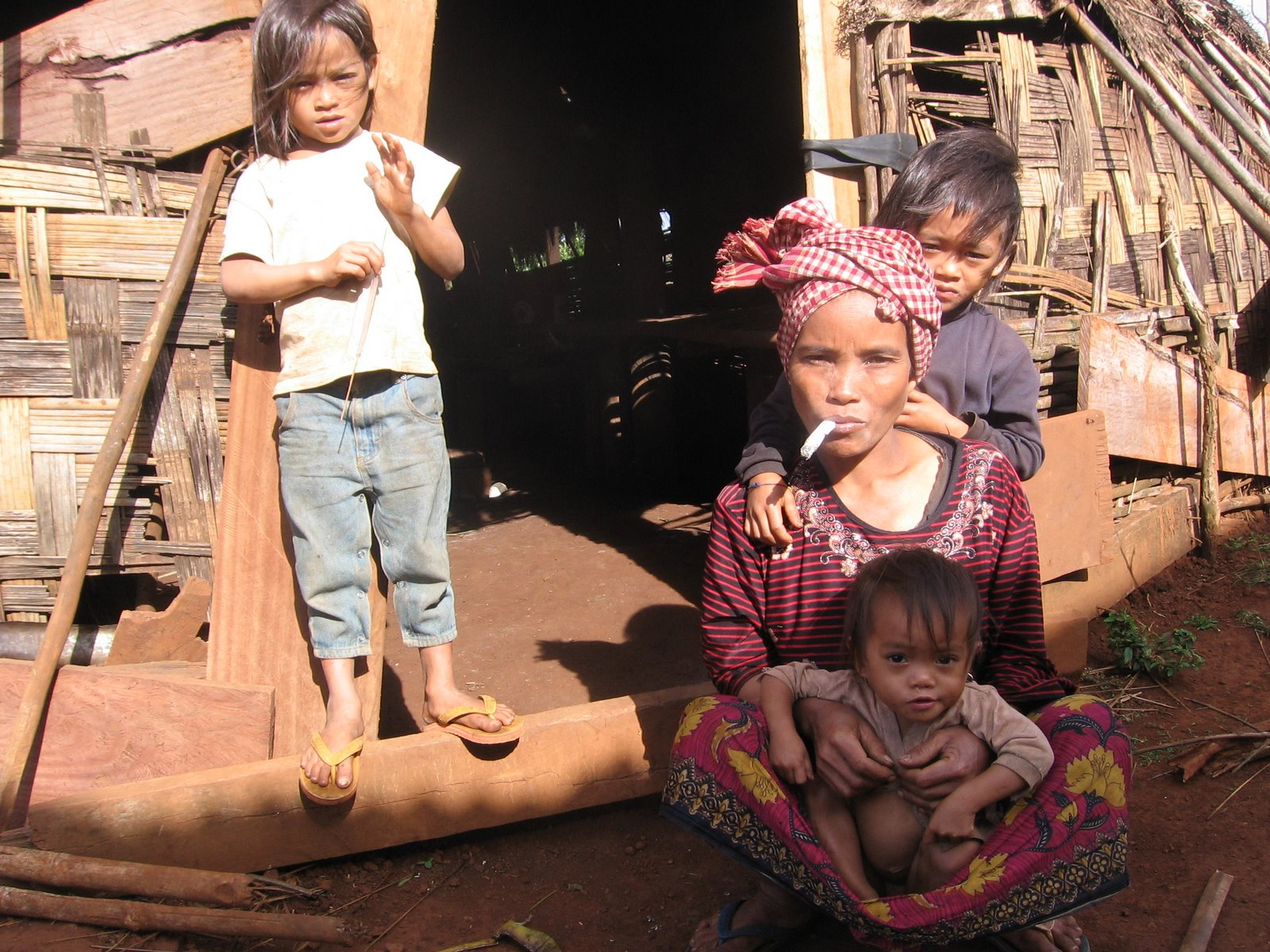 A hilltribes woman and kids in a tiny village near Sen Monorom, Mondulkiri Province, Cambodia